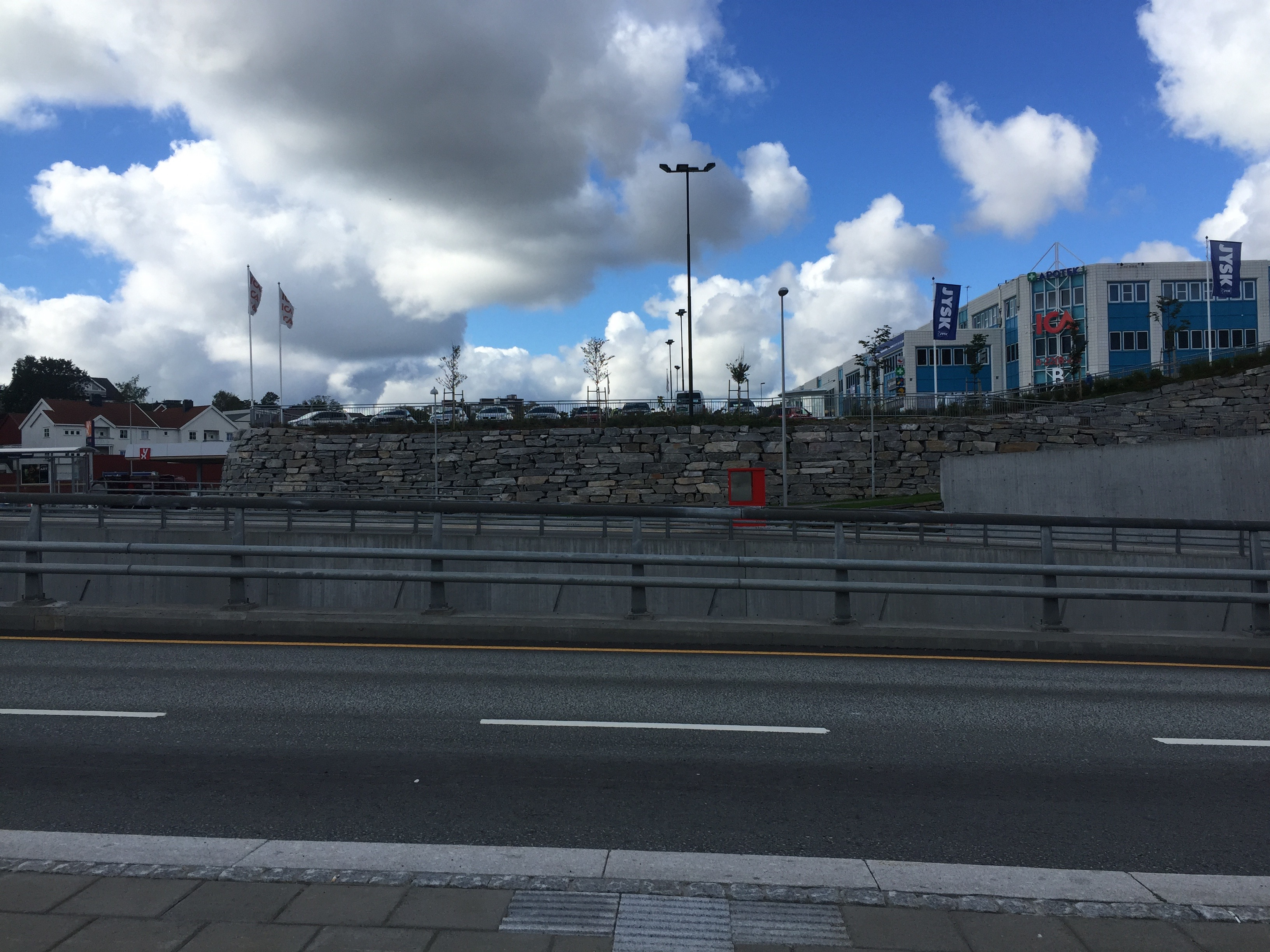 Vågsbygdveien